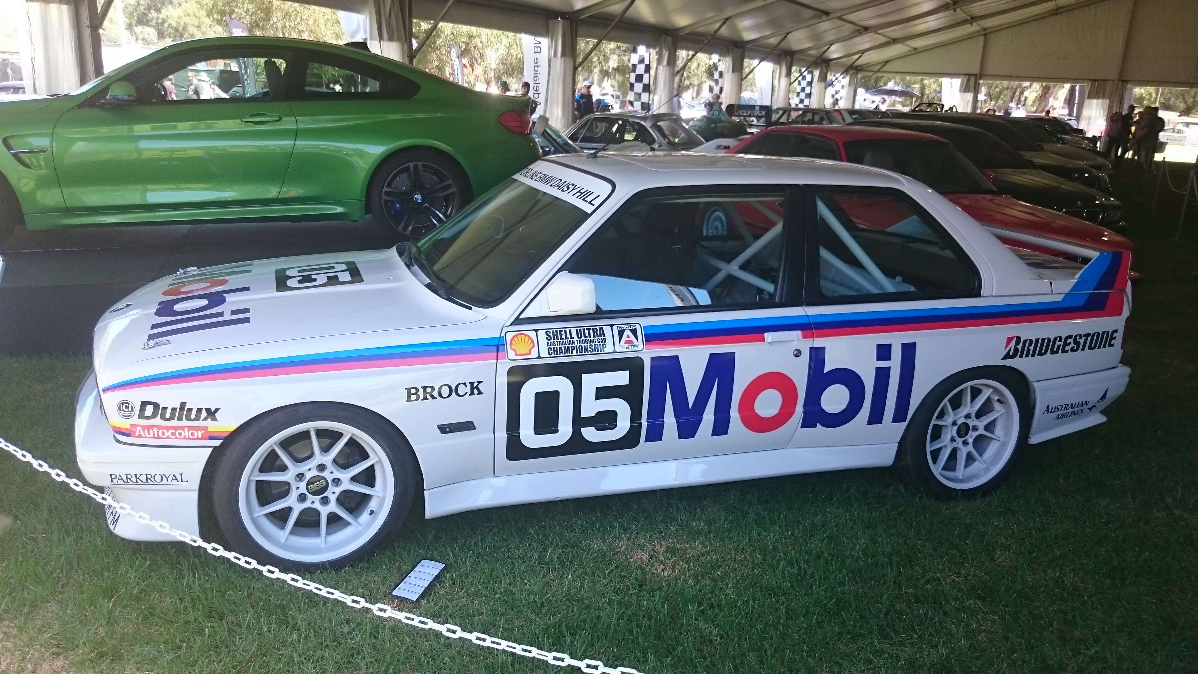 Peter Brock contested the 1988 Australian Touring Car Championship in a BMW M3. The photo was taken at the 2016 Clipsal 500 Adelaide race meeting.